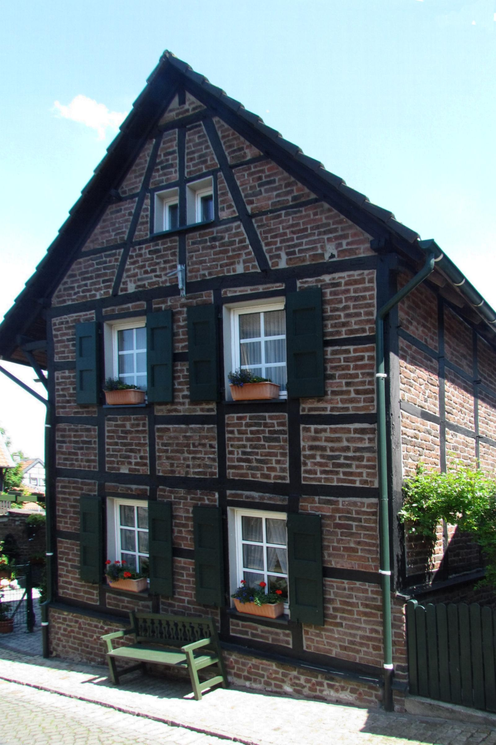 This is a photograph of an architectural monument.It is on the list of cultural monuments of Korschenbroich